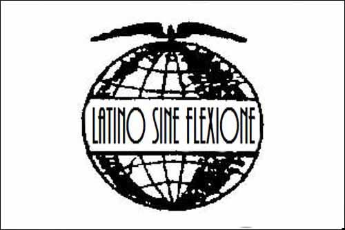 Latino sine flexione flag